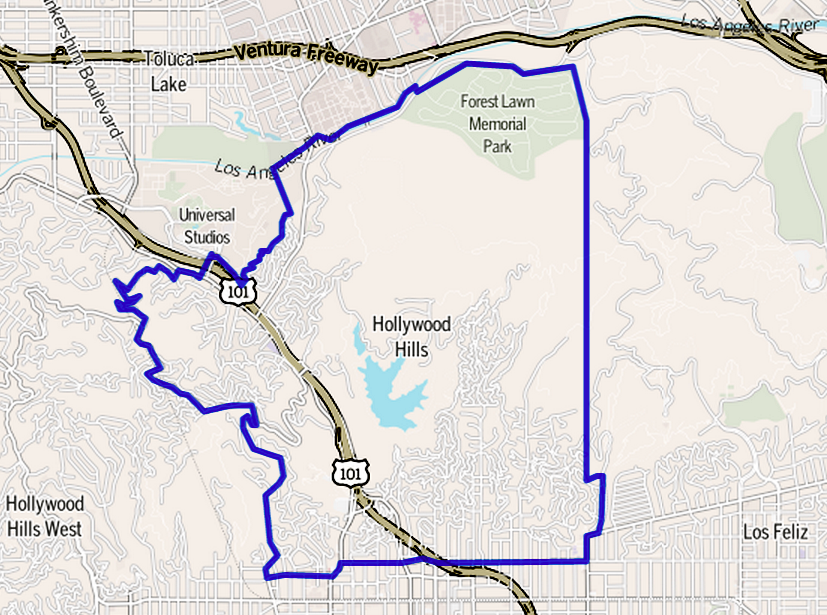 Map of Hollywood Hills as outlined by the Los Angeles Times Other information Boundary map as drawn by the Los Angeles Times on a CC-by-SA background. Note at bottom right of map on the L.A. Times website noted above says "CC-by-SA" (which gives permission to use the map). There is a link there to which explains the meaning thereof. The base map is credited to The Times spells all this out at